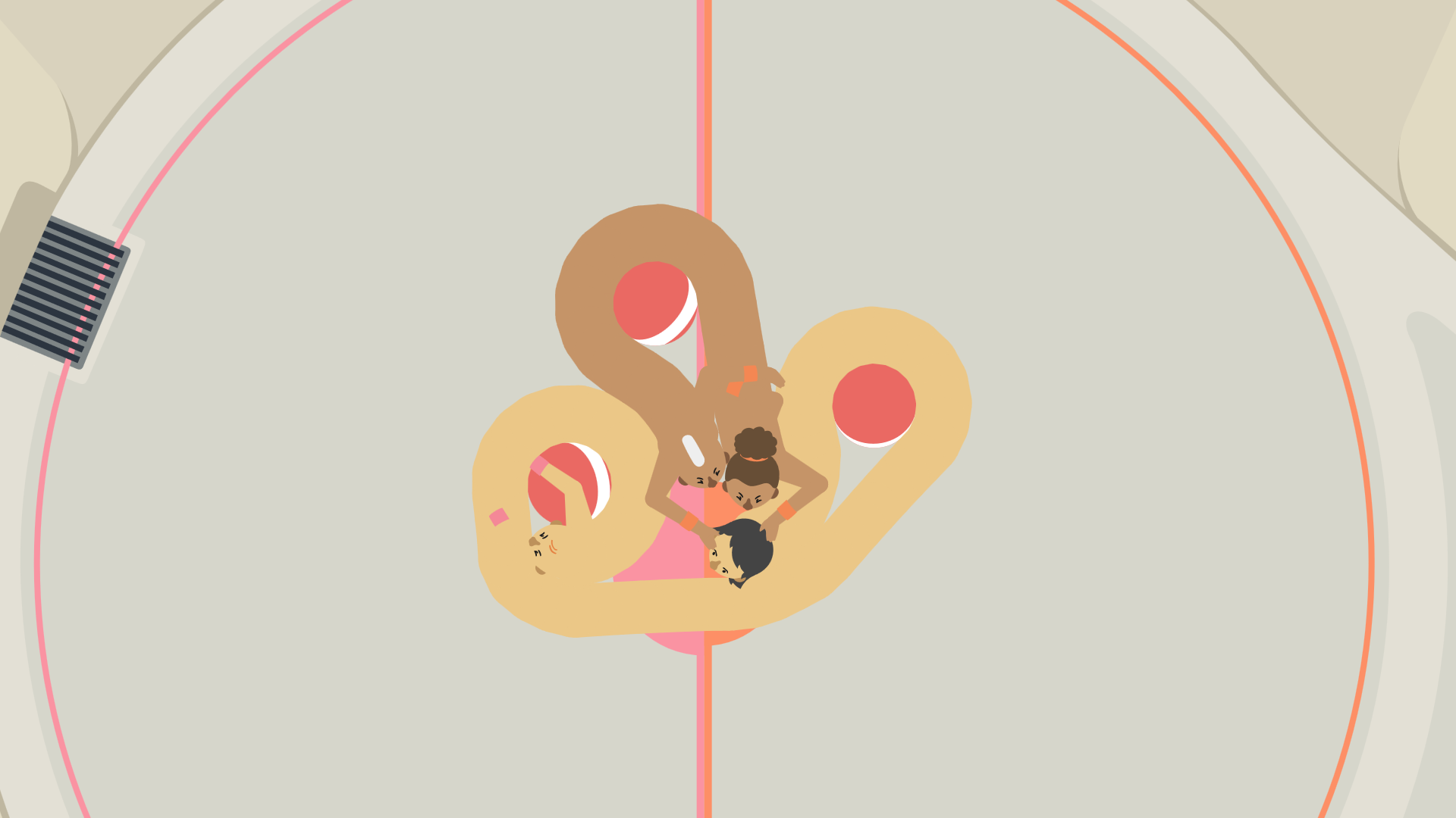 Screenshot of 2016 video game Push Me Pull You